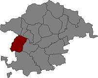 Location of Gombrèn in Ripollès